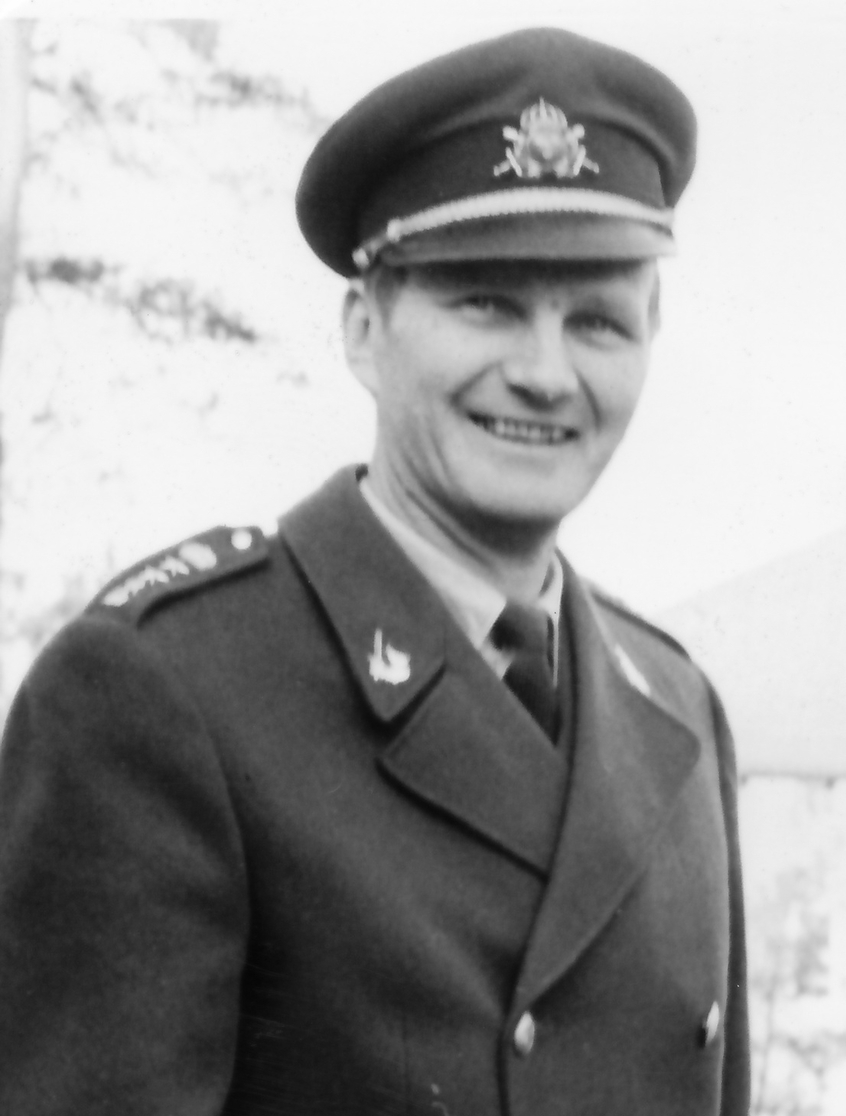 Outside Soldathemmet at Södermanland Regiment (P 10) in Strängnäs in March 1973. On the way to the "OLLI" review in Soldathemmet. From left: Colonel Stig Barke, the Armoured Troops Inspectorate, Lieutenant Colonel Nils-Gunnar Ahlgren and the chief of guards, Fanjunkare Sven Gustavsson.